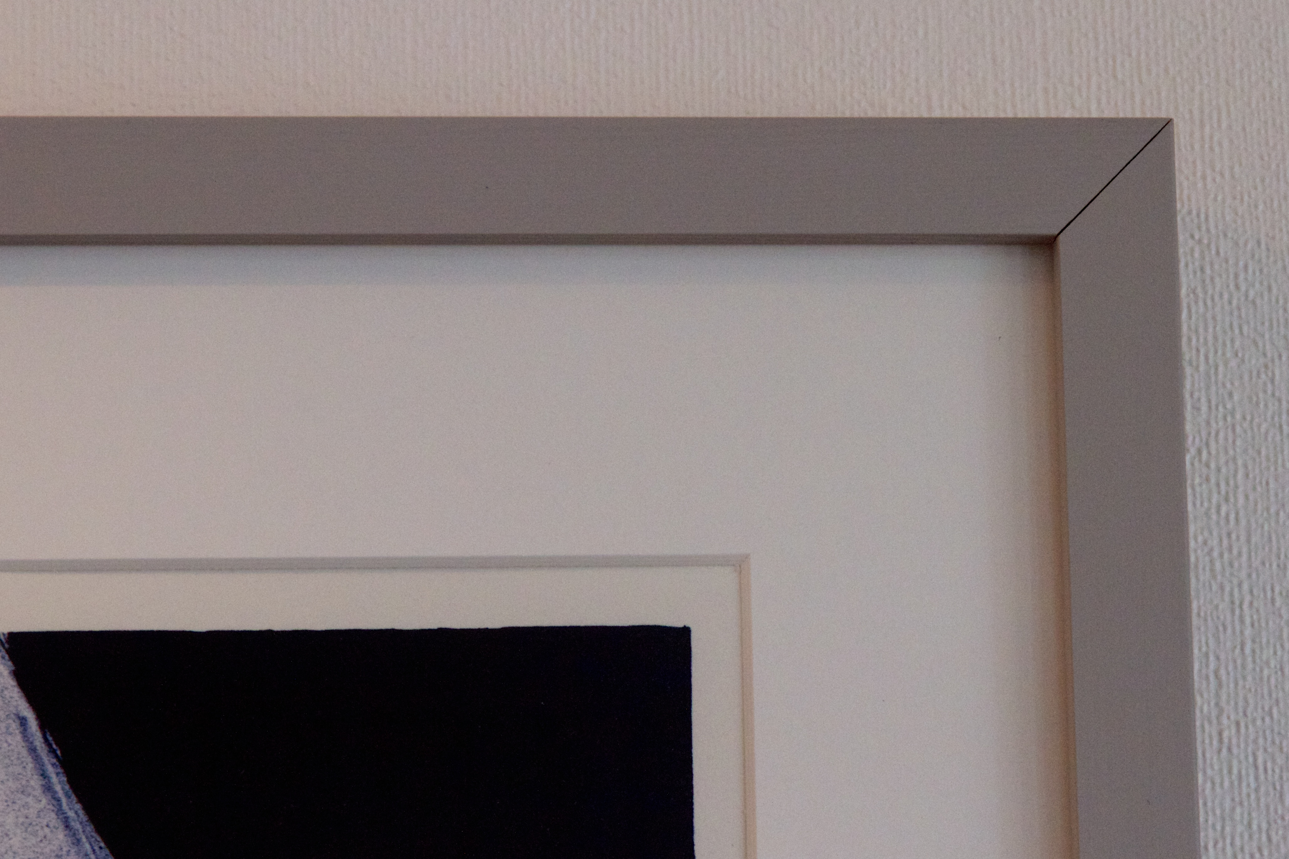 Passe-Partout (framing)